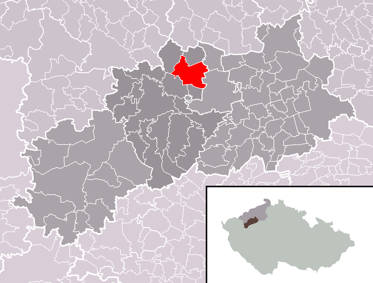 Location of Bitozeves municipality within Louny District and administrative area of Žatec as a Municipality with Extended Competence.